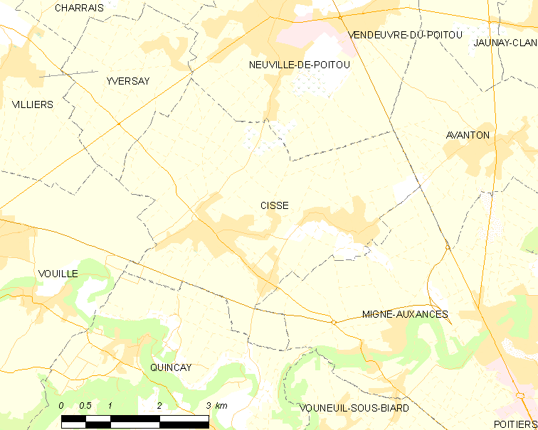 Map of French municipality Cissé